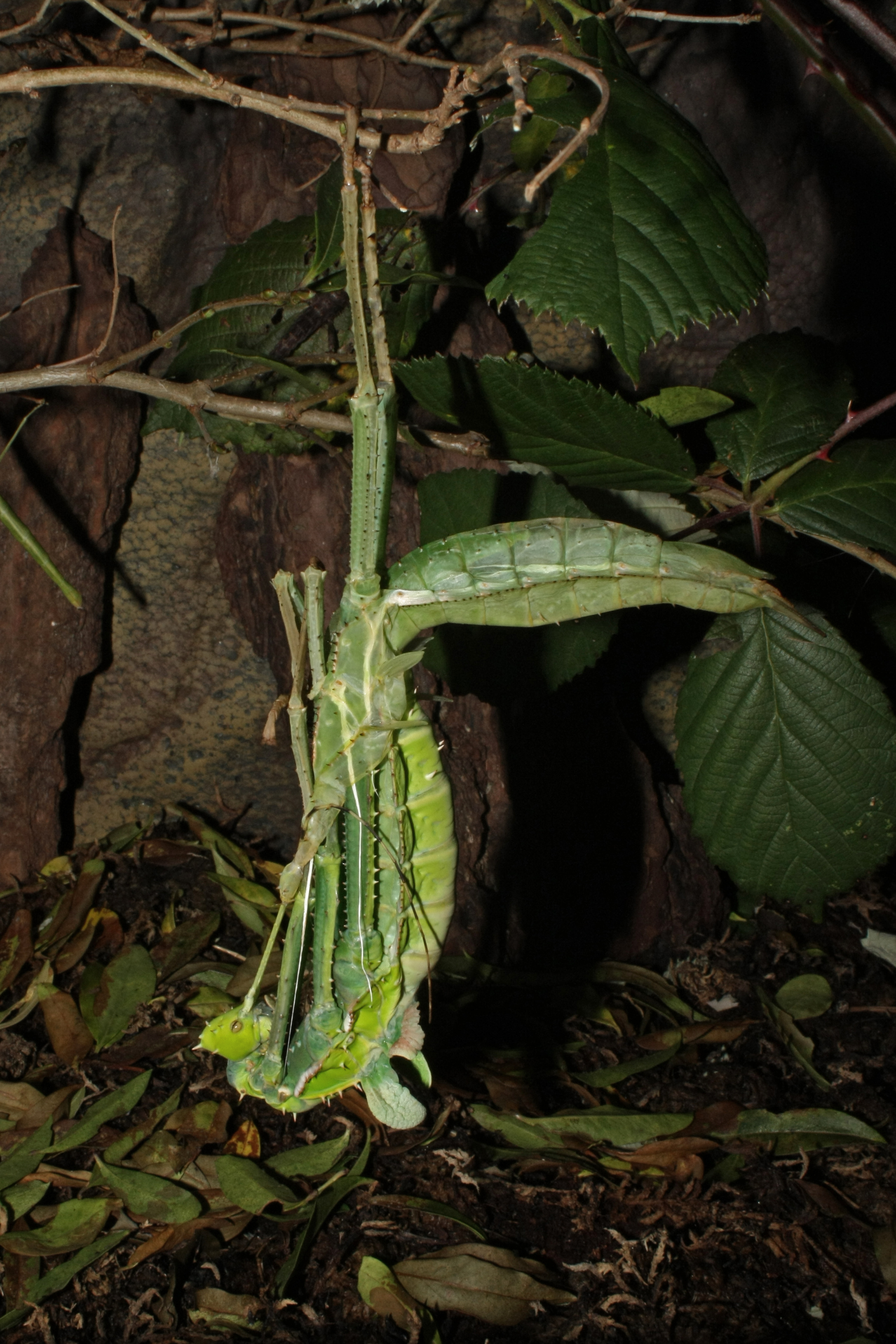 female of Jungle Nymph (Heteropteryx dilatata) during adult moult